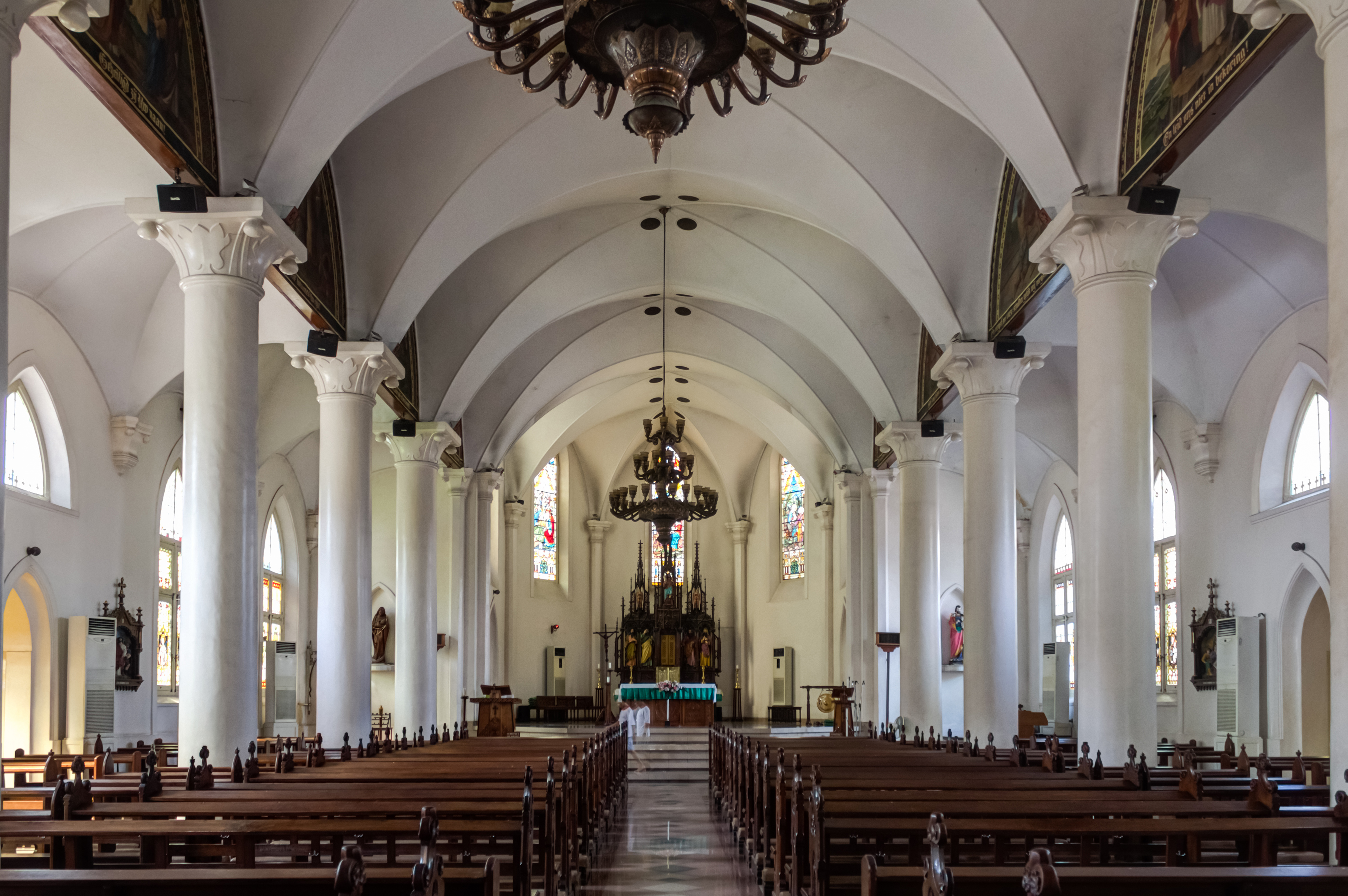 Interior, Gedangan Church, 2014-06-21